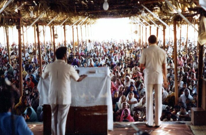 Revival crusade in Andhra Pradesh, India, Johannes Maas, American evangelist, speaking.